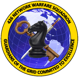 The world globe with North & South America showing. A key in front of the globe and crossing a sword; with the top of the key to the top left and the bottom on the bottom right. A sword in front of the globe crossing the key; with the hilt of the sword to the top right and the blade tip to the bottom left. A black chess knight (horse head) piece in front of the crossed sword & key with the head of the eyes, nose, and mouth of the horse head facing to the left. The outer edge of the globe is surrounded by an unbroken yellow / gold boarder or ring with "426 NETWORK WARFARE SQUADRON" centered and arched on (inside) the top of the yellow ring and "GUARDIANS OF THE GRID COMMITTED TO EXCELLENCE" centered and arched on (inside) the bottom of the yellow ring.